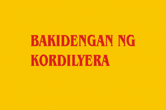 Cordillera People's Democratic Army flag